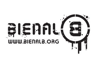 Bienal B, Porto Alegre/RS